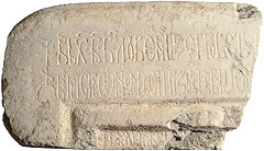 Part of inscription of despot Stefan Lazarević from XV century,which was part of main church he built in Belgrade.Today part of collection of City museum in Belgrade.